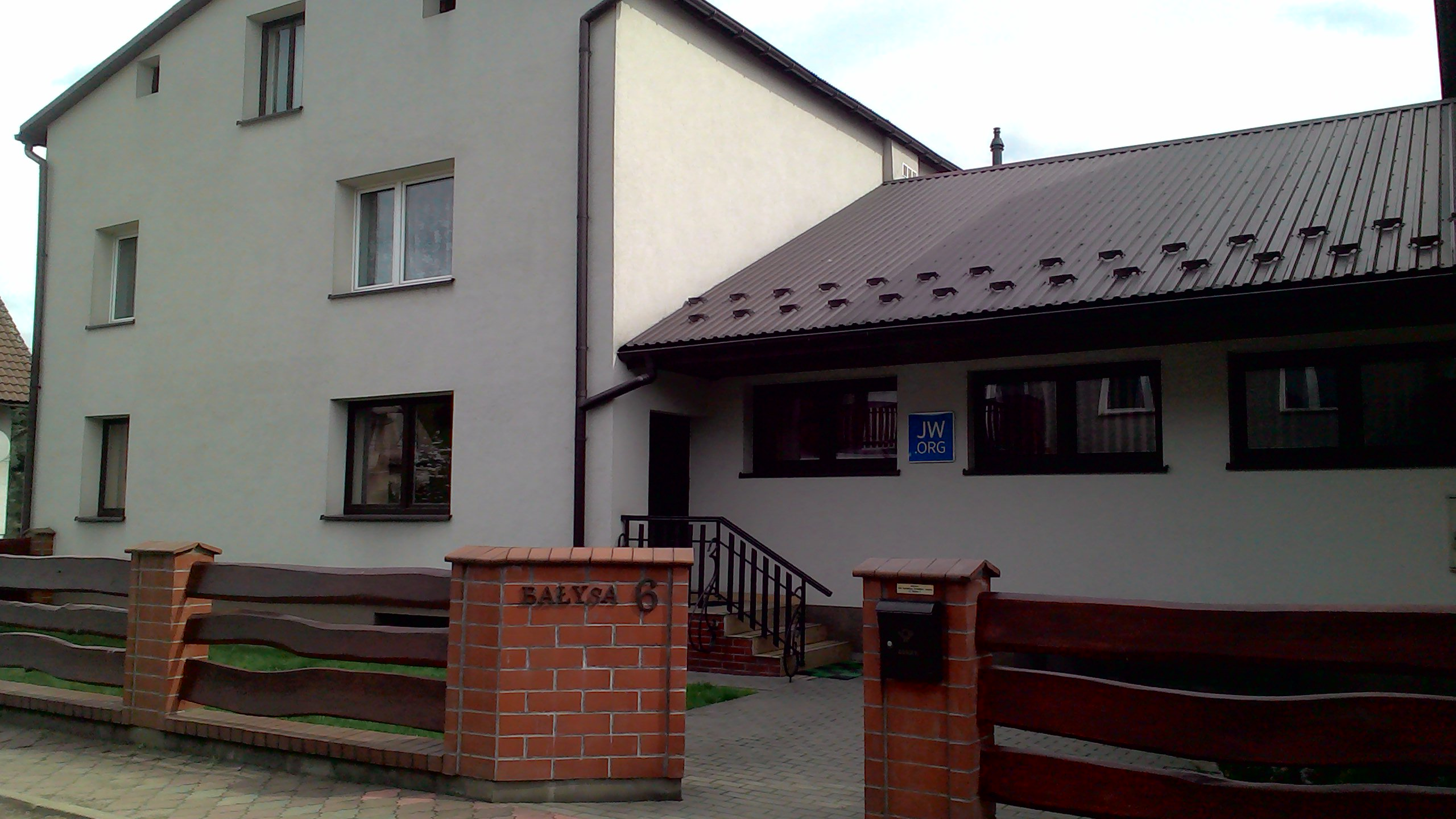 Kingdom Hall, Wadowice